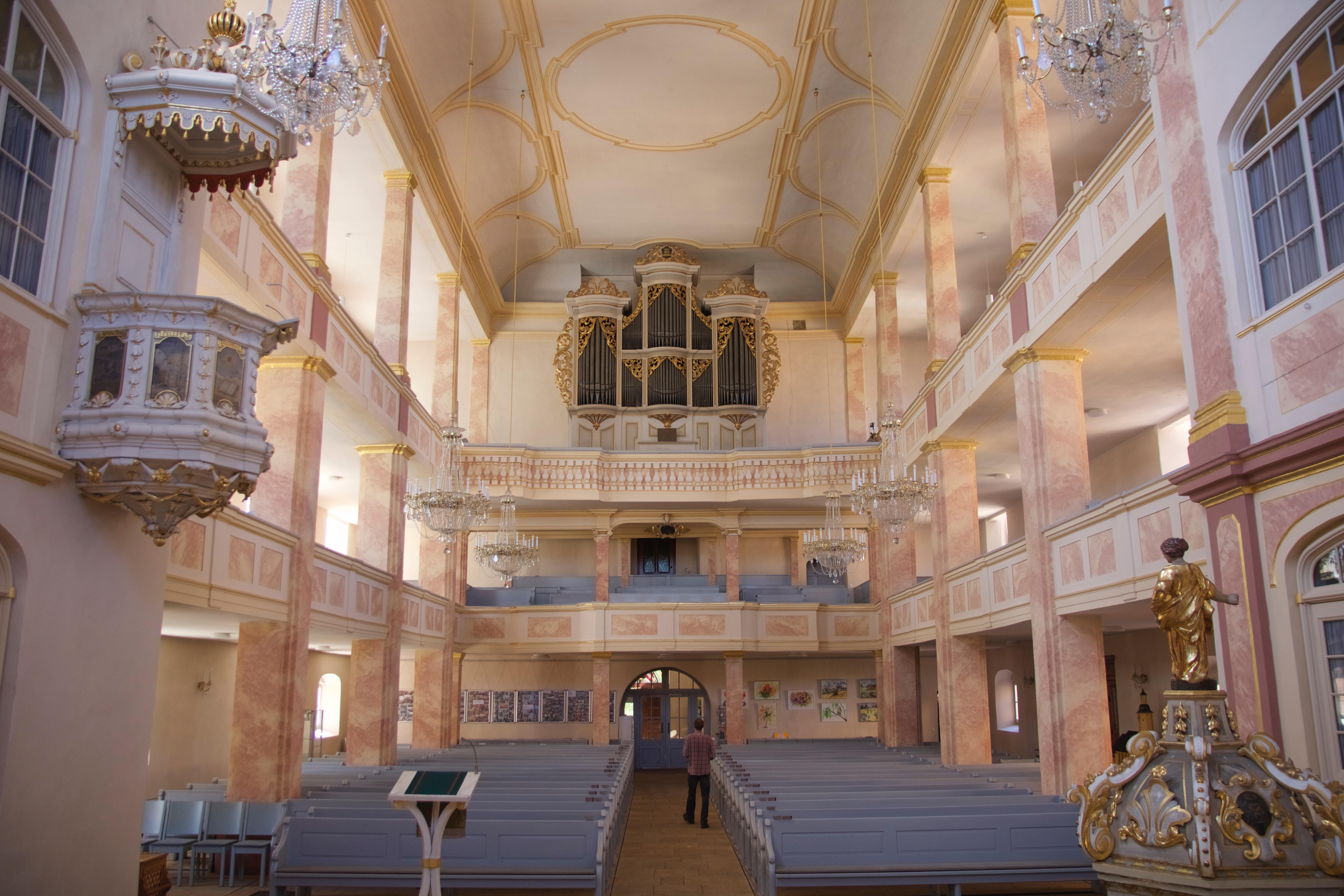 Interior of St George's Church, Glauchau (Germany): View from the altar towards the organ gallery.